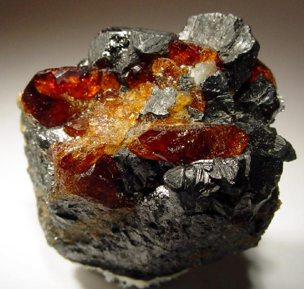 Chondrodite, Magnetite Locality: Tilly Foster mine, Brewster, Putnam County, New York, USA (Locality at ) The isolated red gemmy crystals of Chondrodite that you see here are classic, and this particular occurrence from the Tilly Foster Mine has the rare association with Magnetite. Small xls but of high quality! 2.8 x 2.6 x 2.1 cm